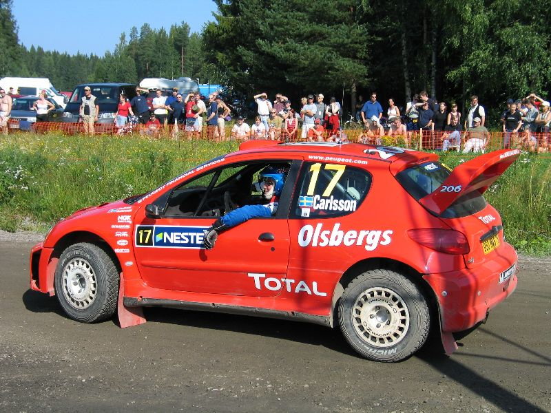 Daniel Carlsson driving his Peugeot 206 WRC at the 2004 Rally Finland.